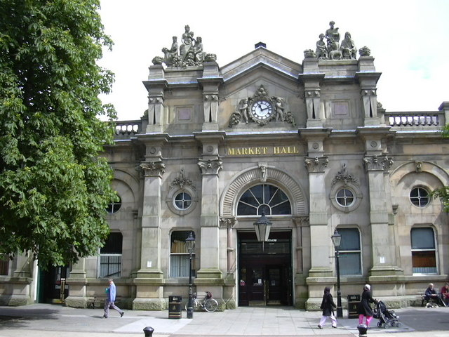 Market Hall